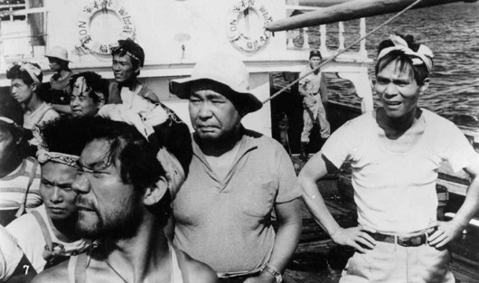 Jukichi Uno(right end) in 1959 Japanese movie Daigo Fukuryū Maru(Lucky Drago No. 5)